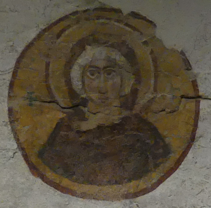 Painting of the "Virgin Mary" with a halo from a tomb at the necropolis in Tyre/Sour, around 440 A.D. (early Byzantine period), on display at the National Museum of Beirut, Lebanon. According to Ali Khalil Badawi, director of antiquities in Tyre, it is "possibly the oldest fresco of the Virgin Mary worldwide.